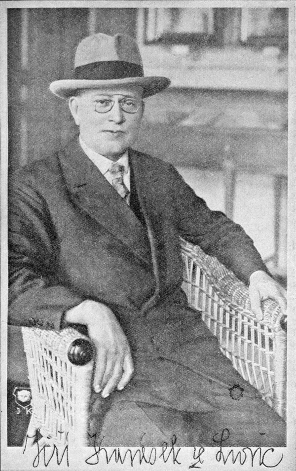 Jiří Karásek ze Lvovic (1871-1951) was a Czech decadent poet, writer, critic and art collector.